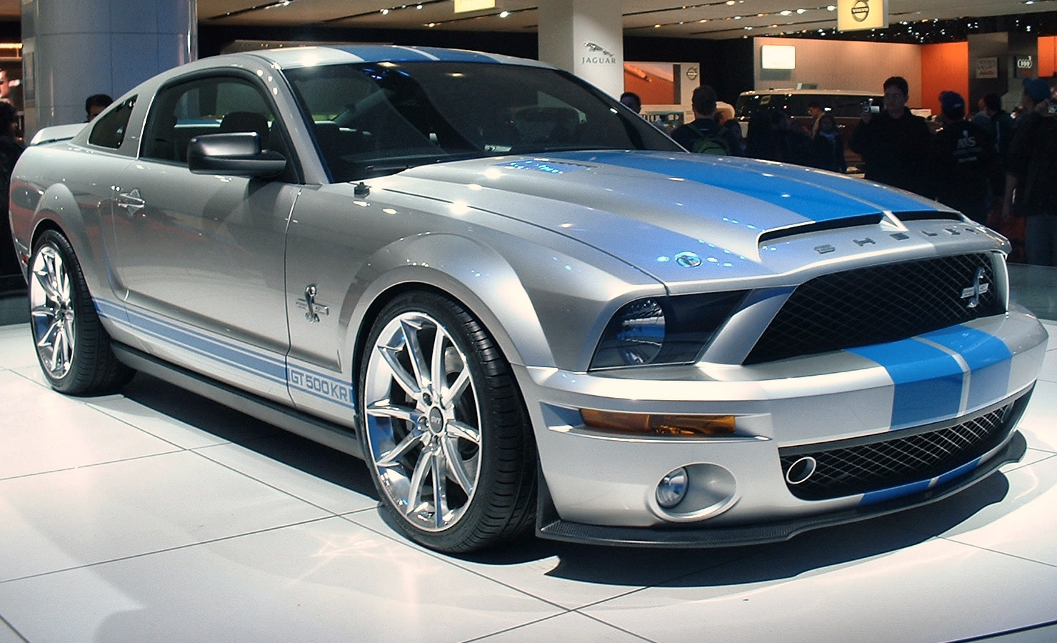 Picture of the Shelby GT500KR at 2007 New York International Auto Show